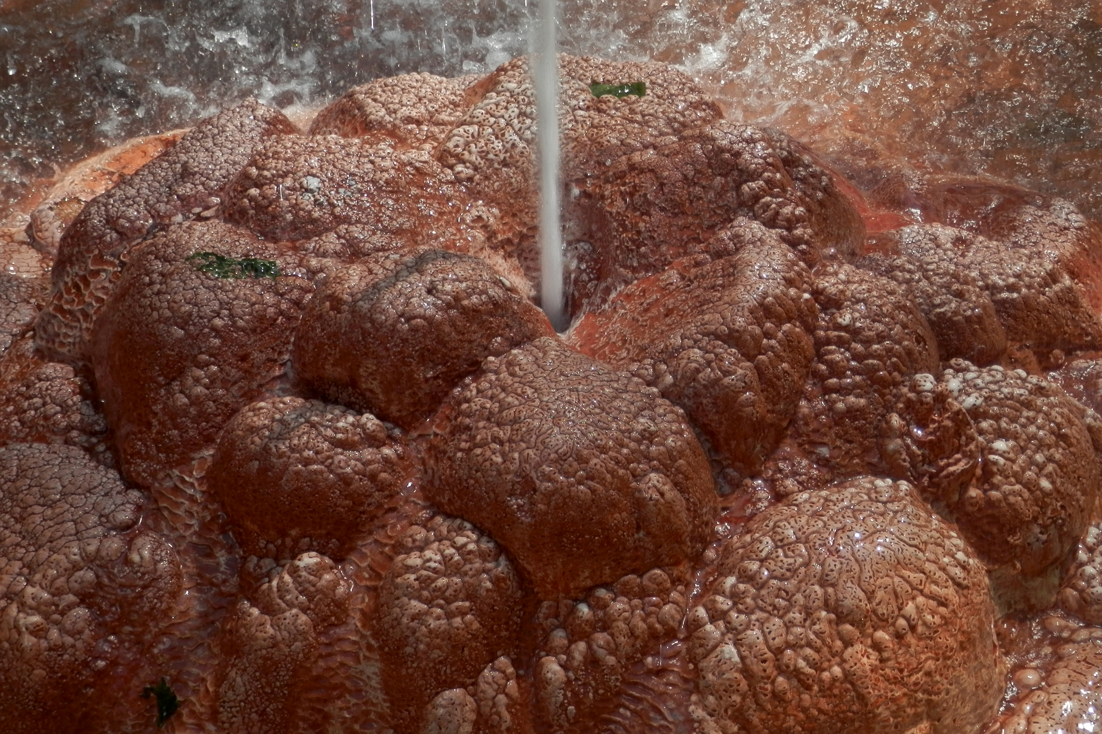 Geyser Island Spouter at Saratoga Spa State Park in Saratoga Springs, New York, United States of America.